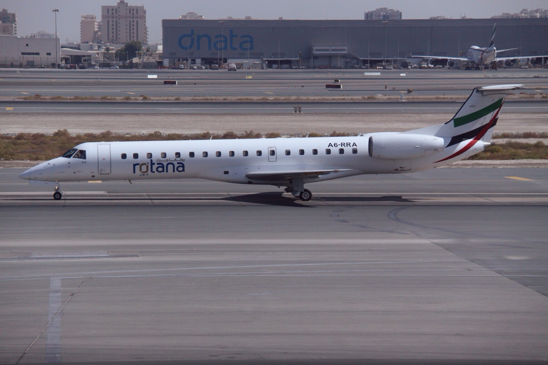 At Dubai International DXB